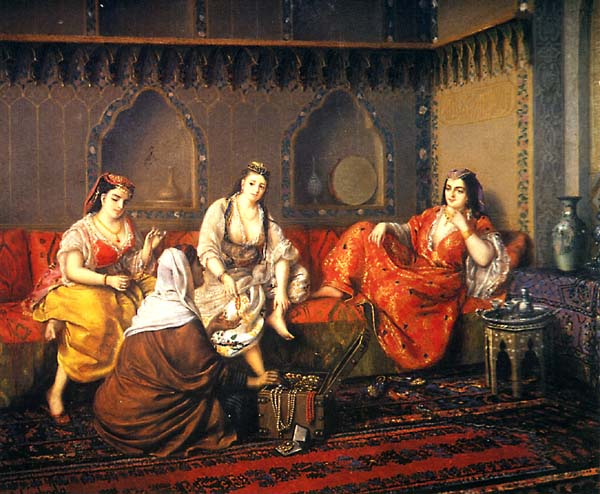 Shopping in the Harem